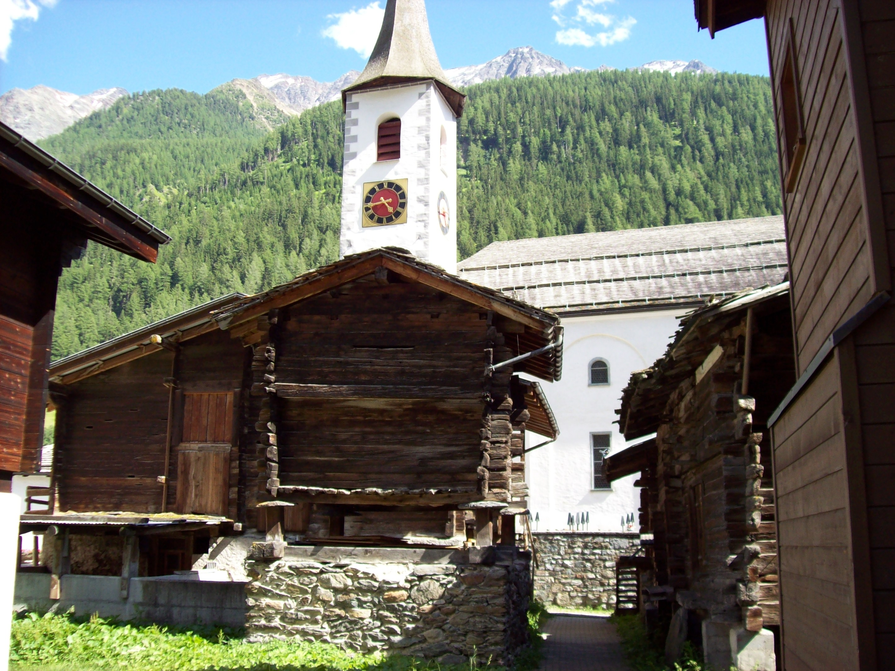 Kippel, Valais, Switzerland